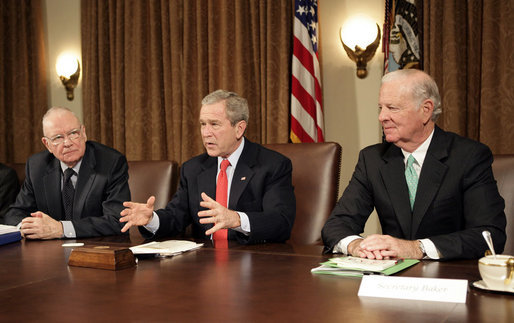 U.S. President George W. Bush addresses the press during a meeting with the Iraq Study Group in the Cabinet Room Wednesday, Dec. 6. 2006. Pictured with the President are the group's co-chairmen former Representative Lee Hamilton, left, and former Secretary of State James Baker.